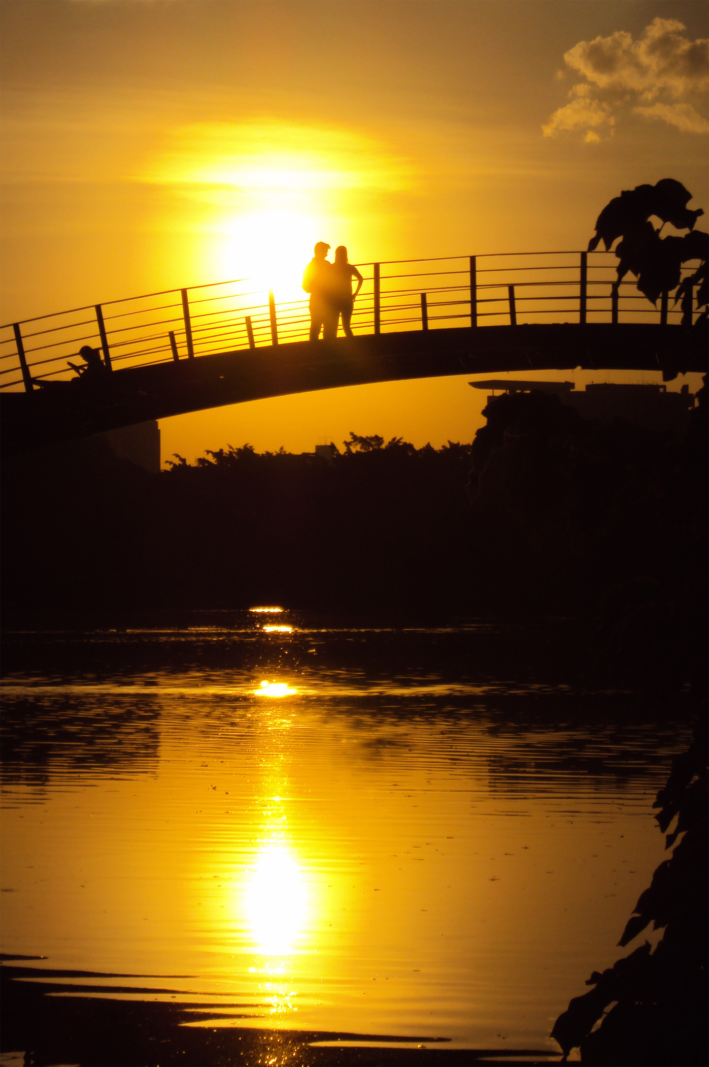 Iron bridge at sundown (Ibirapuera Park - São Paulo)